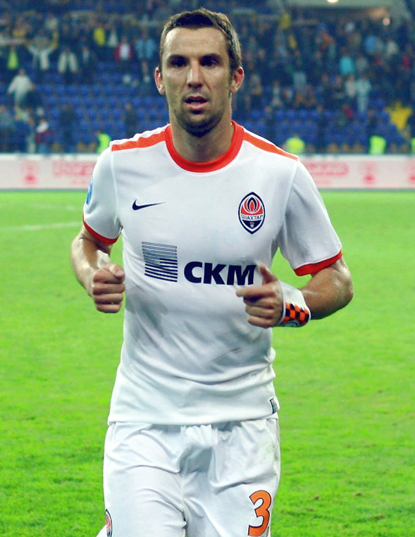 Darijo Srna, Croatian footballer, during the game for Shakhtar DonetskHrvatski: Darijo Srna, hrvatski nogometaš vrijeme igre za Šahtar Donjeck